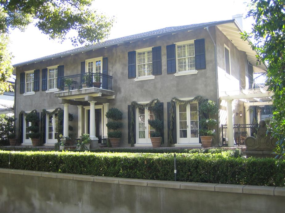 M.H. Reed residence, built by architect Joseph Blick in 1911, and located at 450 Bellefontaine Street, Pasadena, California.